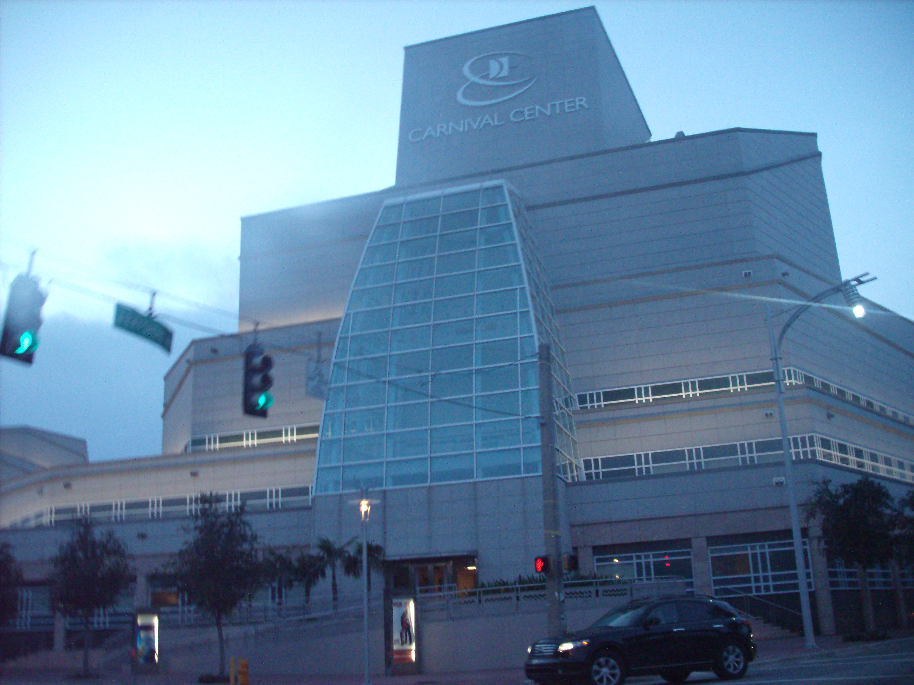 The Knight Concert Hall at The Adrienne Arsht Center for the Performing Arts view from the south